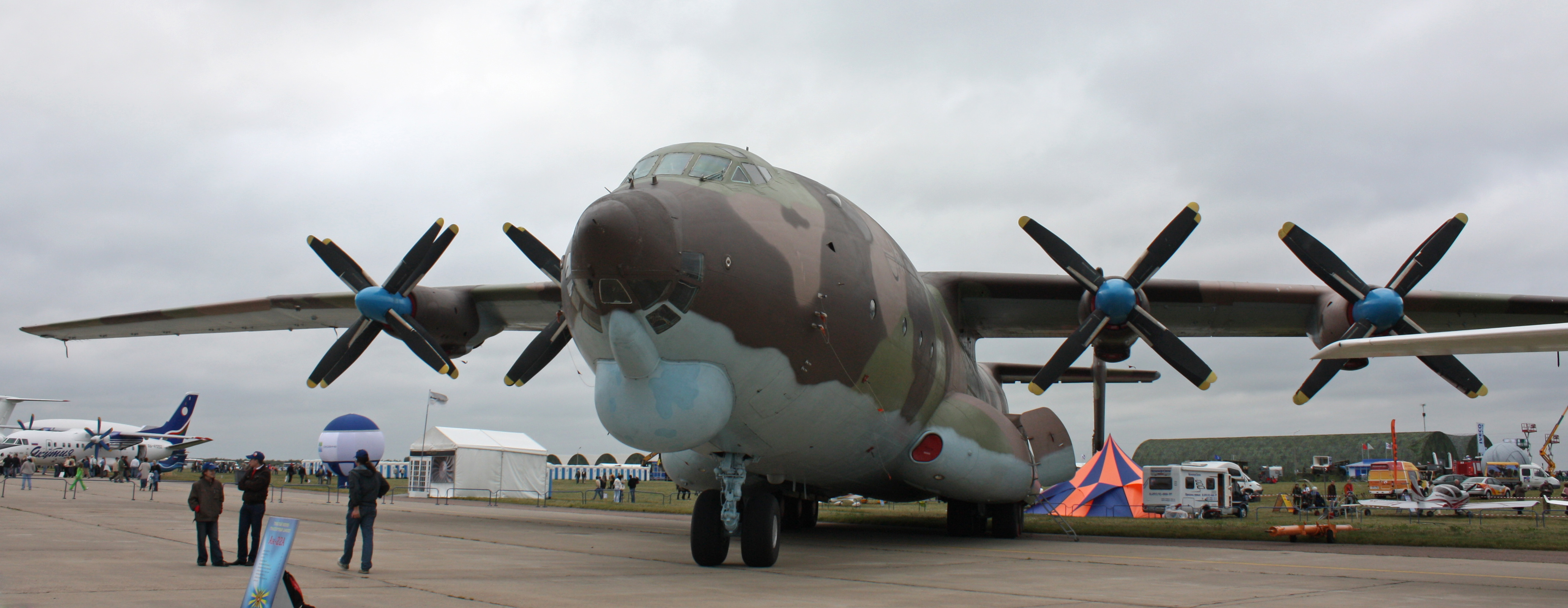 Antonov An-22 "Antaeus" (The international aerospace salon MAKS-2009)